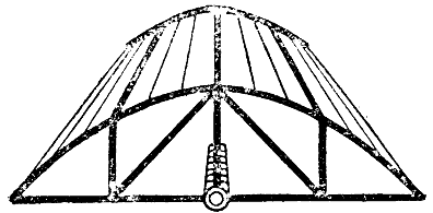 John Ericsson's solar thermal collector from 1888